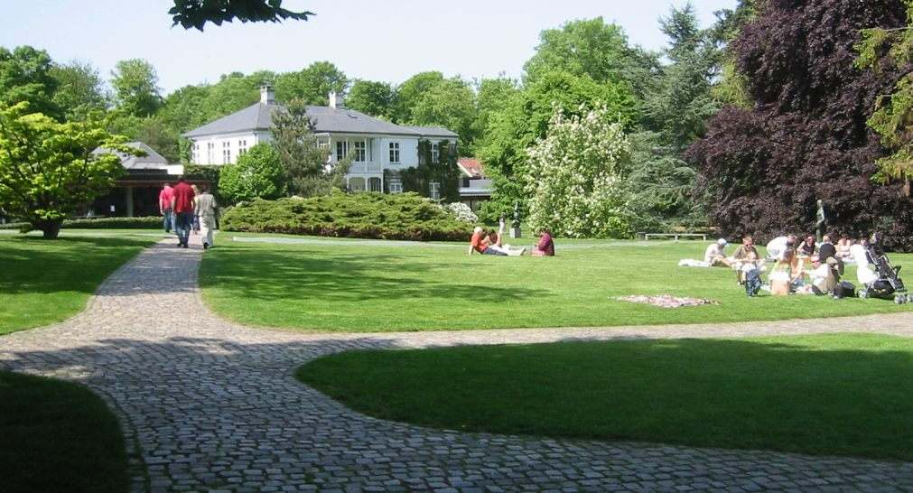 Louisiana, Humlebæk.